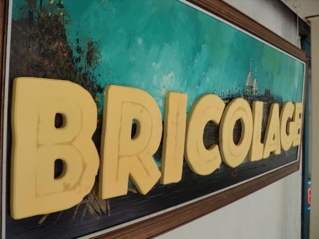 A self-referential example of bricolage using a thrift store painting.